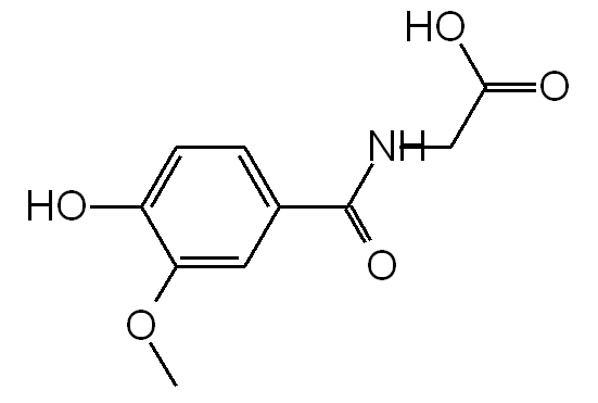 Chemical structure of 3-methoxy-4-hydroxy-hippuric acid